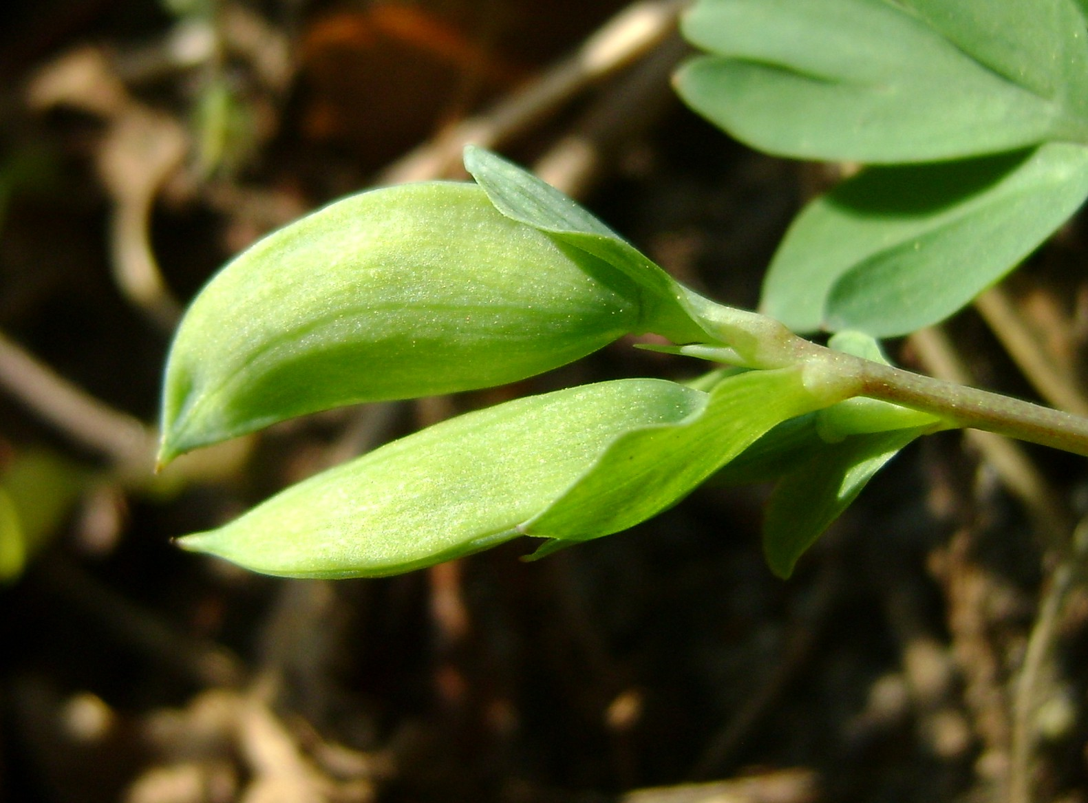 Fruit of Corydalis intermedia. Połczyn Zdrój (NW Poland)